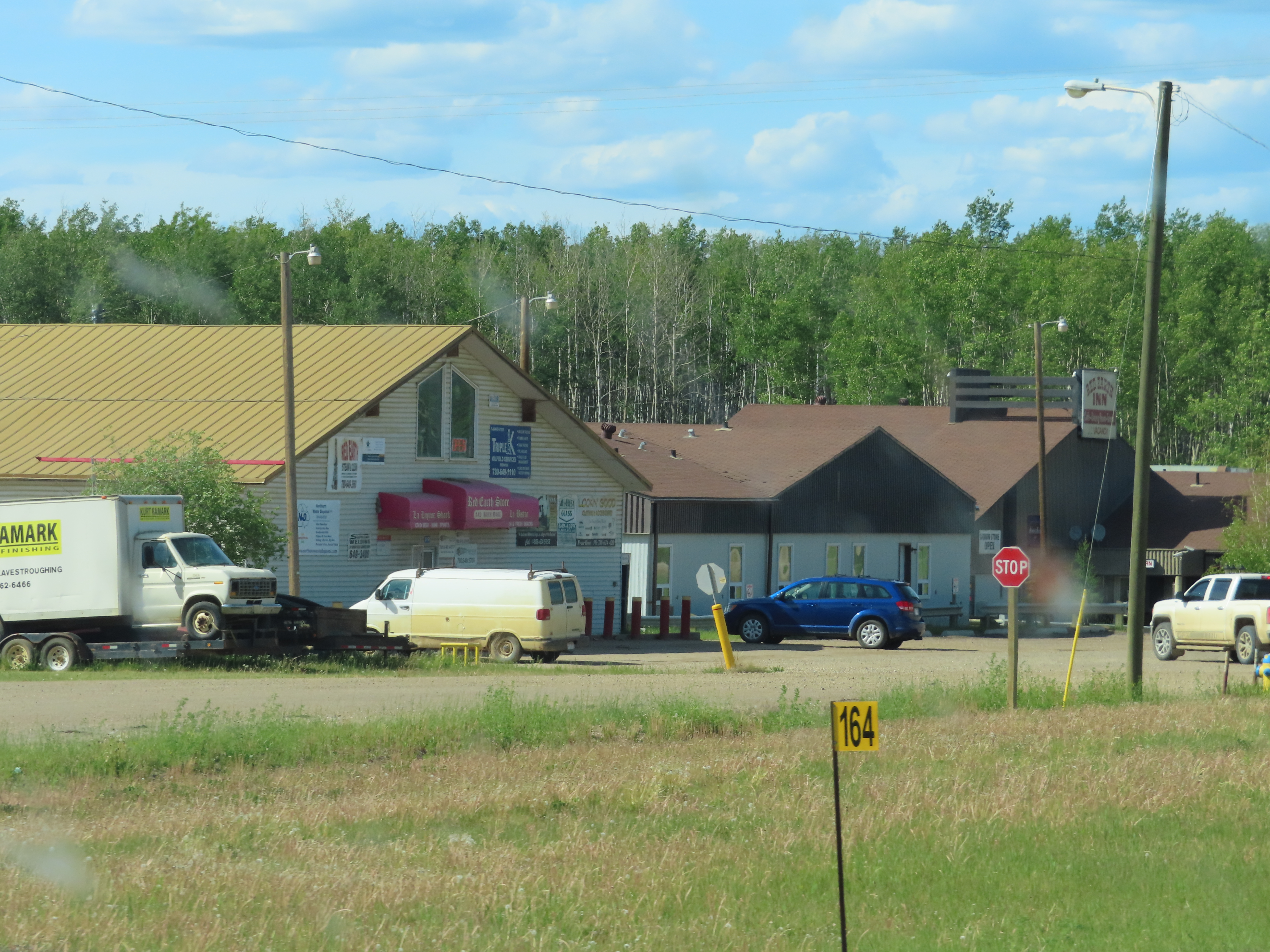 A relatively poor photograph of some businesses in Red Earth Creek, Alberta.